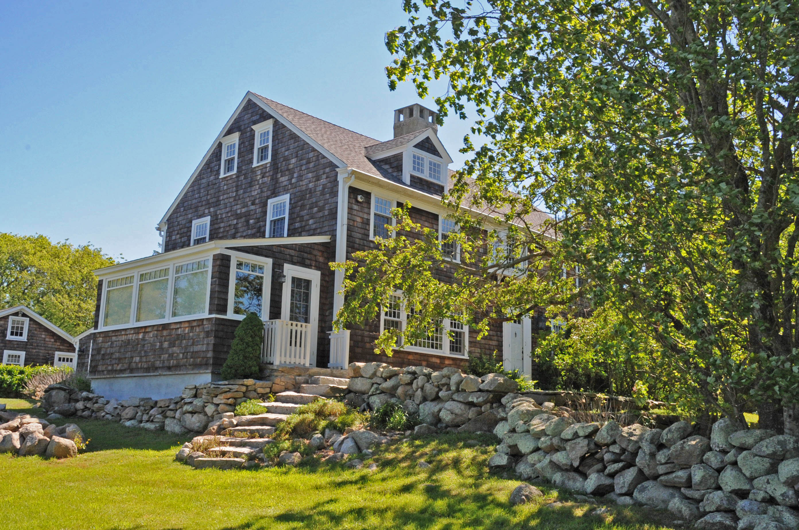 The Babcock House, AKA Whistling Chimneys, located at 163 Sunset Street in Charlestown, Rhode Island. Built circa 1675 to 1713 possibly by a member of the Stanton family.